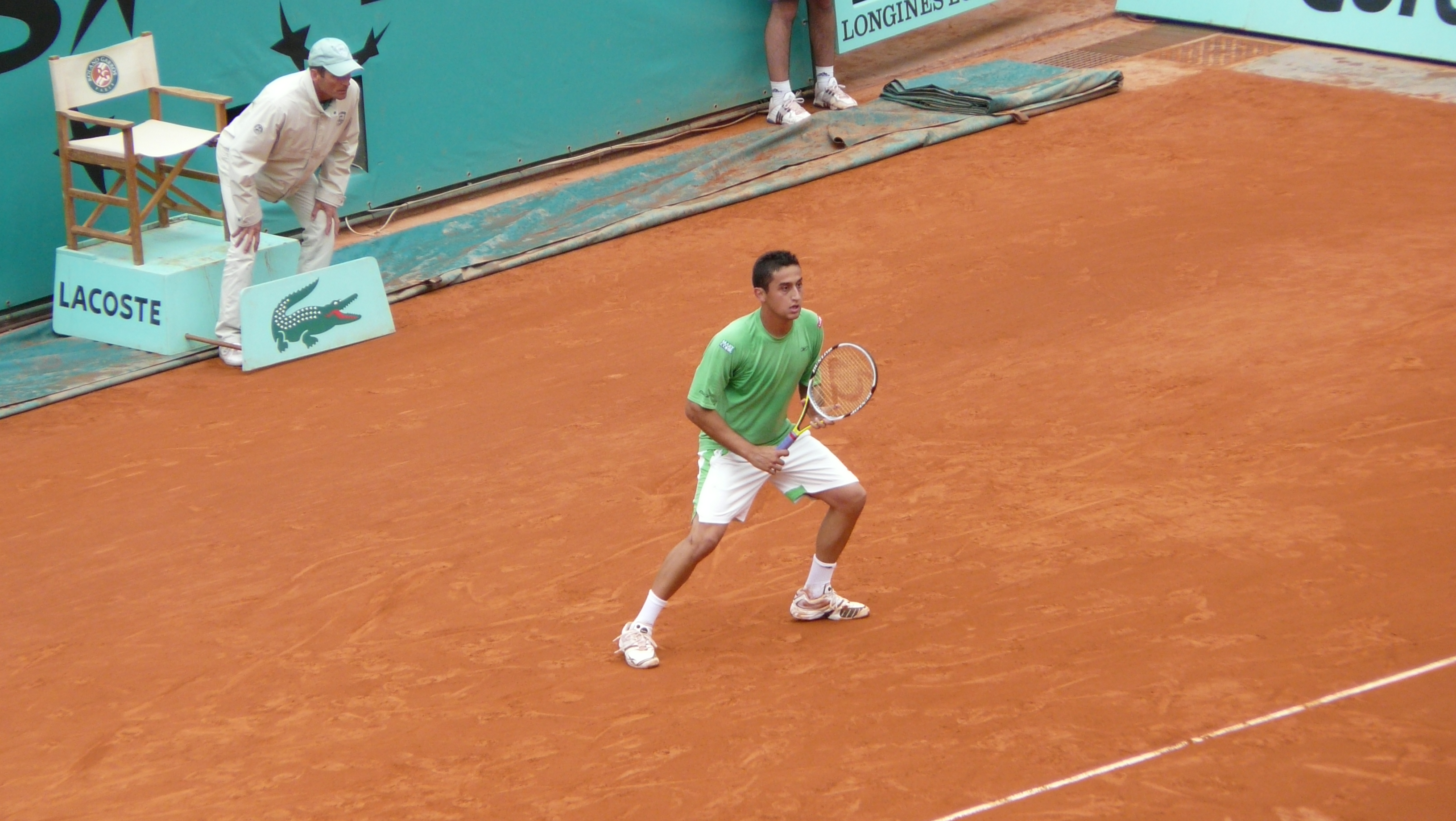 Nicolás Almagro against Rafael Nadal in the 2008 French Open quarterfinals